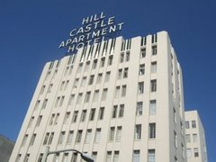 The Art-Deco style Hillcastle Apartment Hotel on Jackson Street